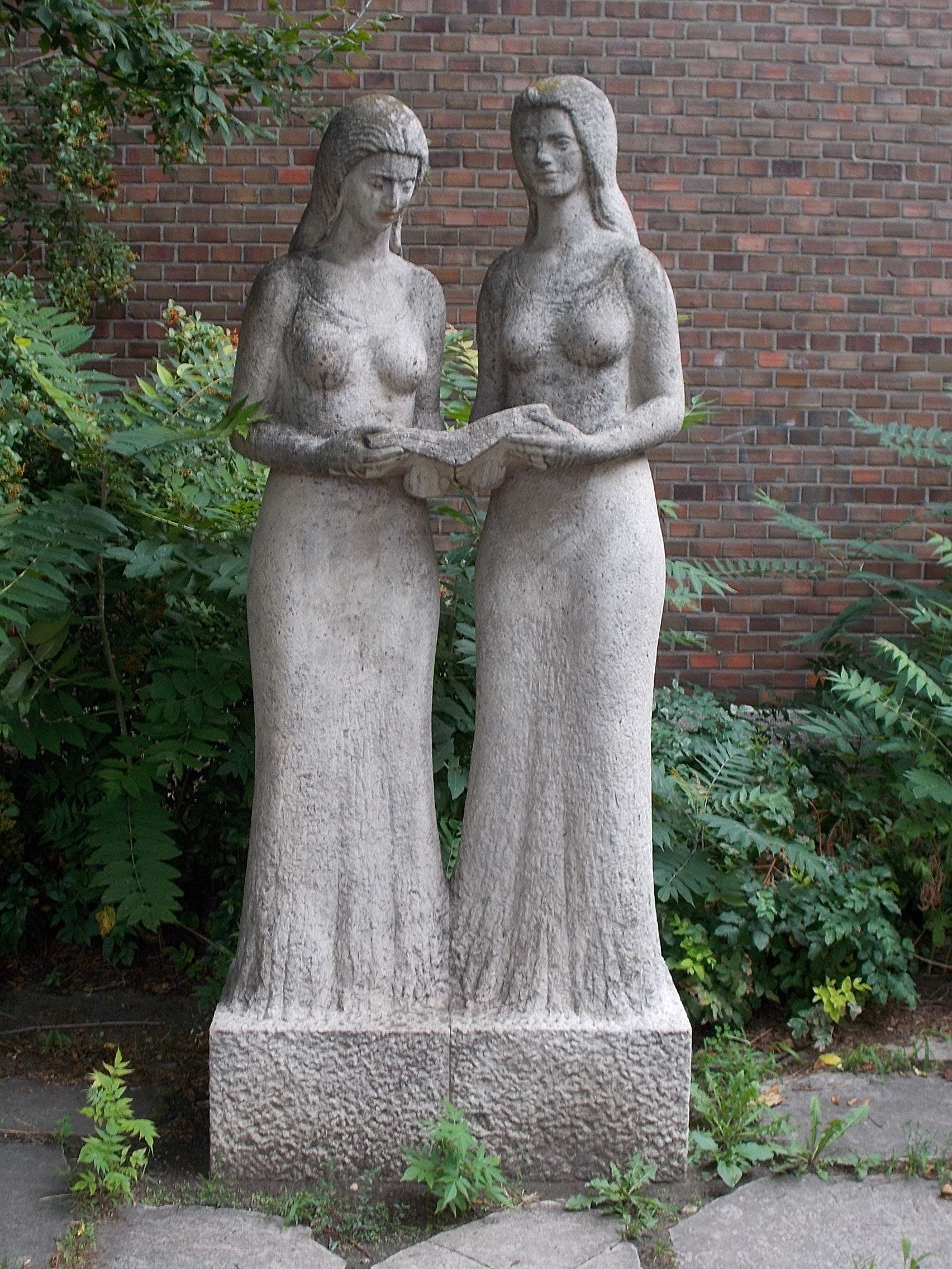 Two singers by Iván Szabó. - Irinyi József Street, Budapest District XI.